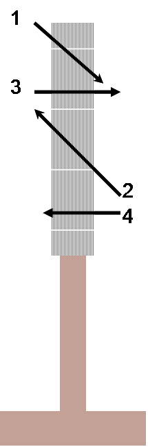 This is the Tameshigiri cutting pattern Tsubamegaeshi (according to RyuSeiKen battodo) in its complete form.